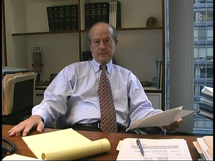 James F. Sirmons, Executive Vice President, CBS. 30 Aug 2000, Black Rock.